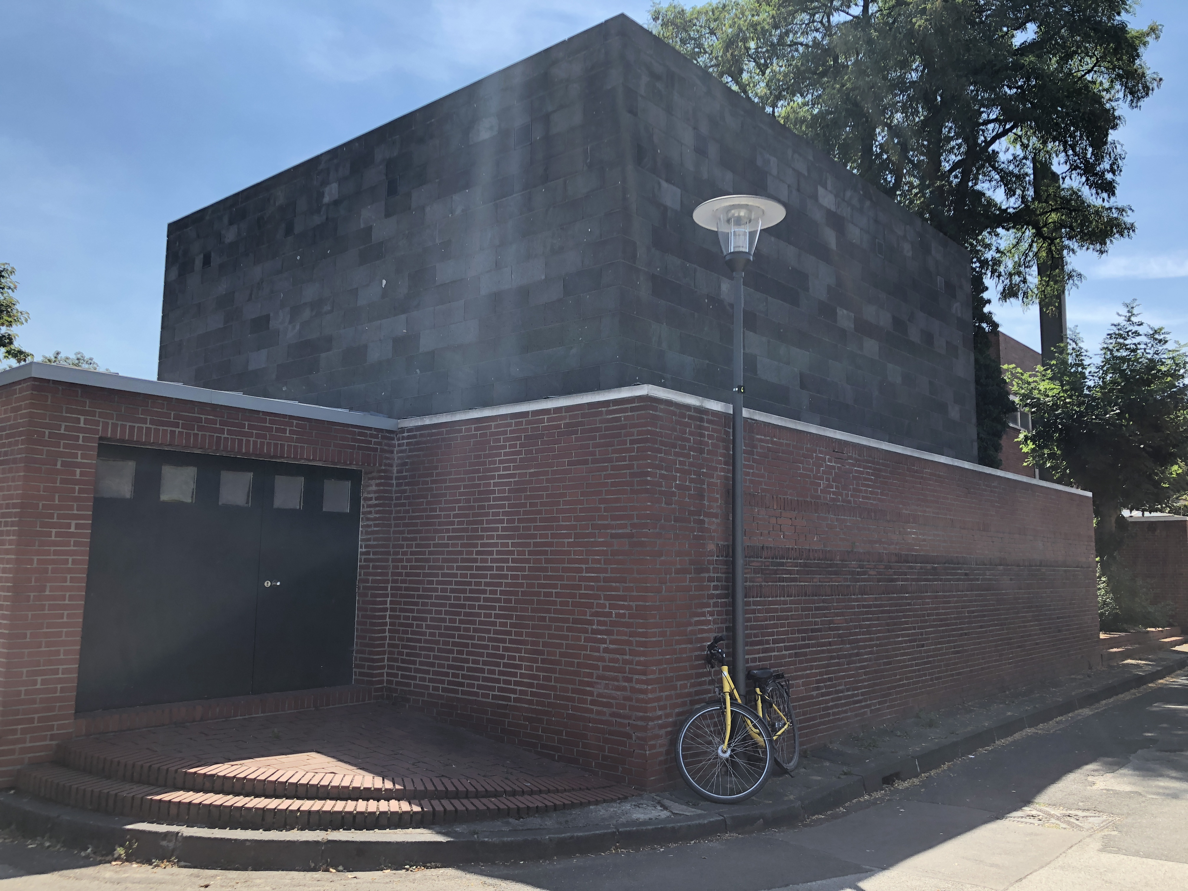 Cube building which houses the Ungers Archive for Architectural Research.